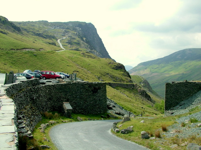 Summit of Honister Pass Looking in the direction of Buttermere with Honister Crag straight ahead.